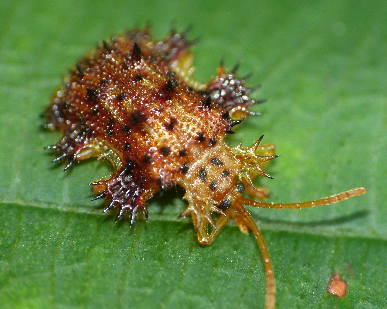 Platypria echidna. Uttara Kanara, India. Determined by L. Shyamal based on